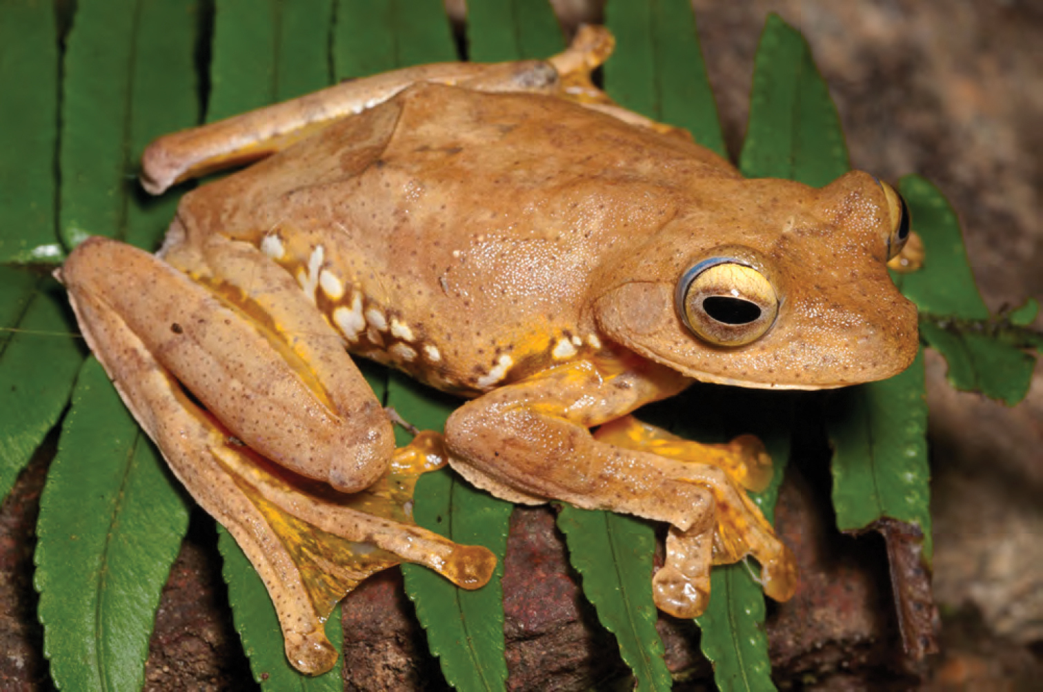 Rhacophorus pardalis female (KU 330294) from mid-elevation, Mt. Cagua. Photo: RMB.